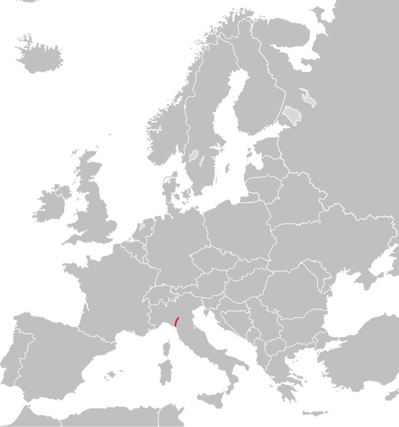 The European route 33